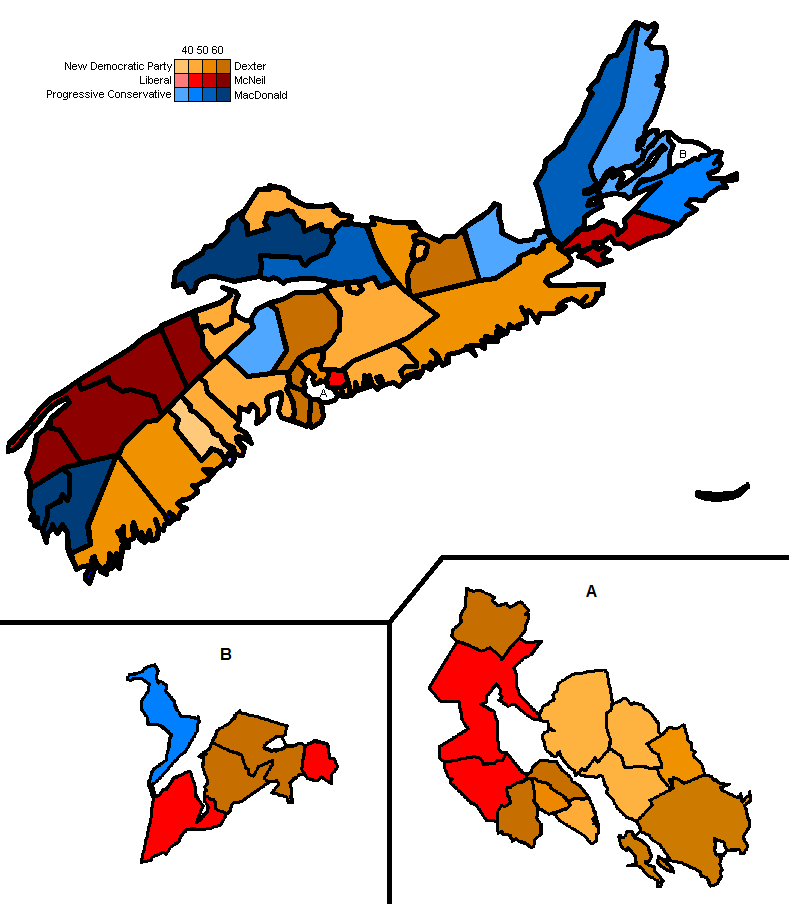 A map showing how Nova Scotia's 52 electoral districts voted in 2009